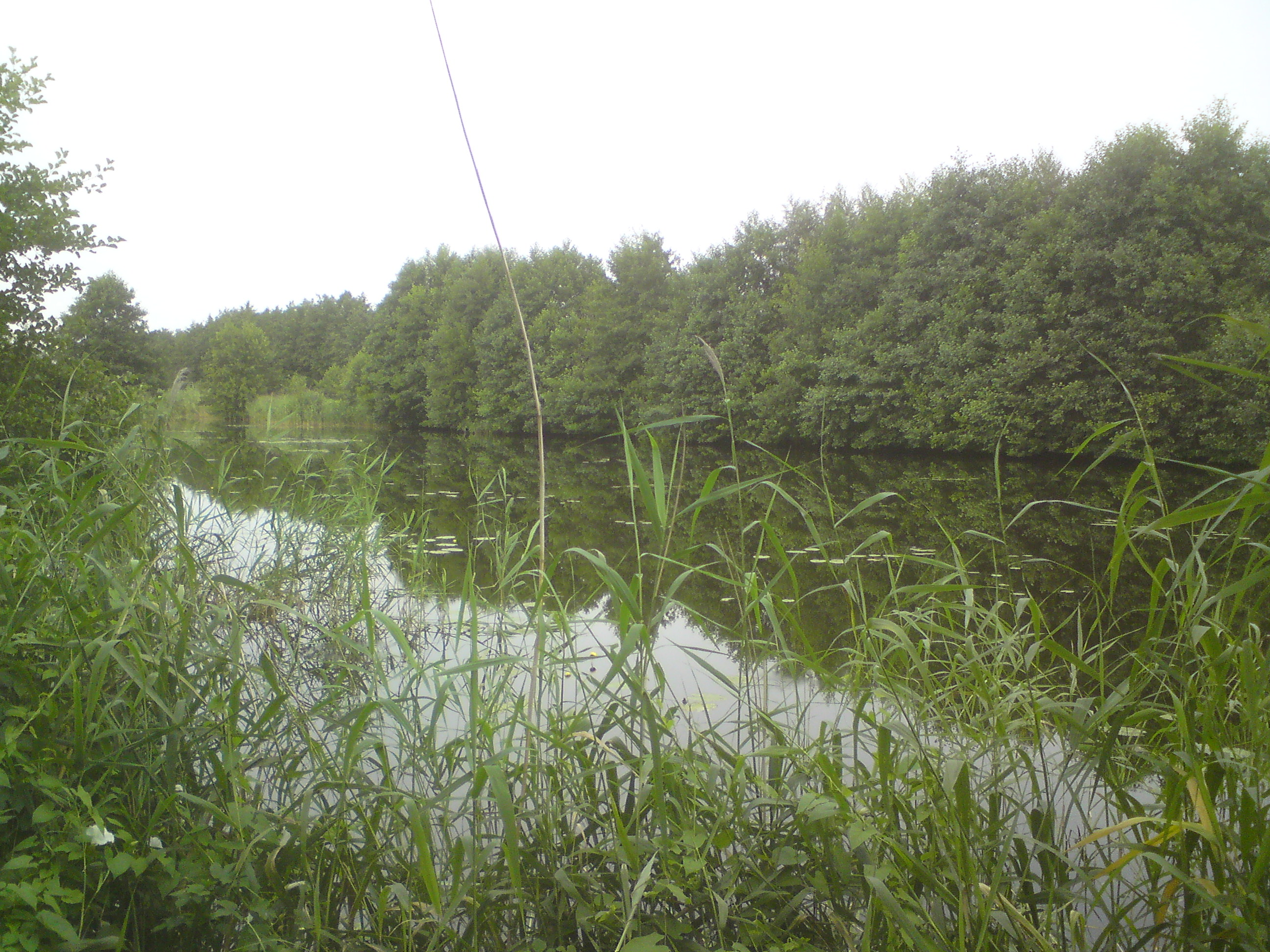 Millpond of the former Kladrum mill near Schwanheide, Mecklenburg-Vorpommern, Germany